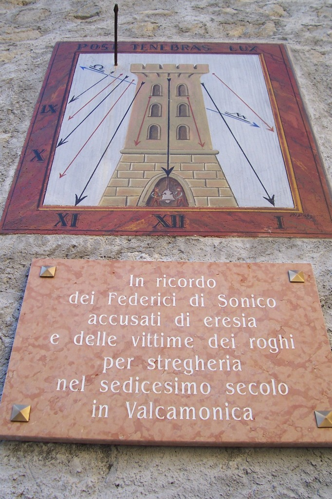 Sundial and inscription about the witch-hunt in Val Camonica. Sonico, Val Camonica